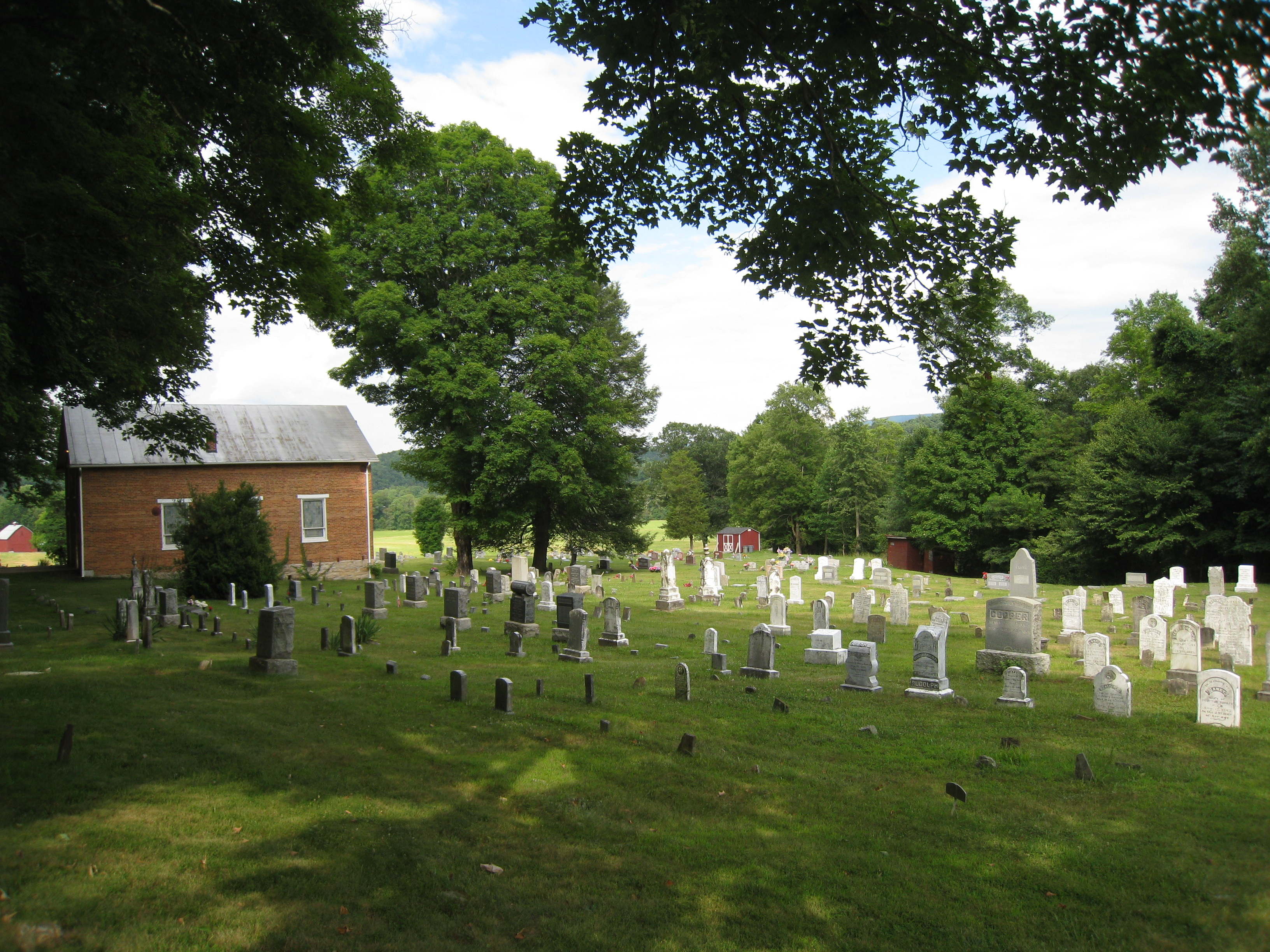 Old Hebron Lutheran Church along West Virginia Route 259 in Intermont, West Virginia, United States.